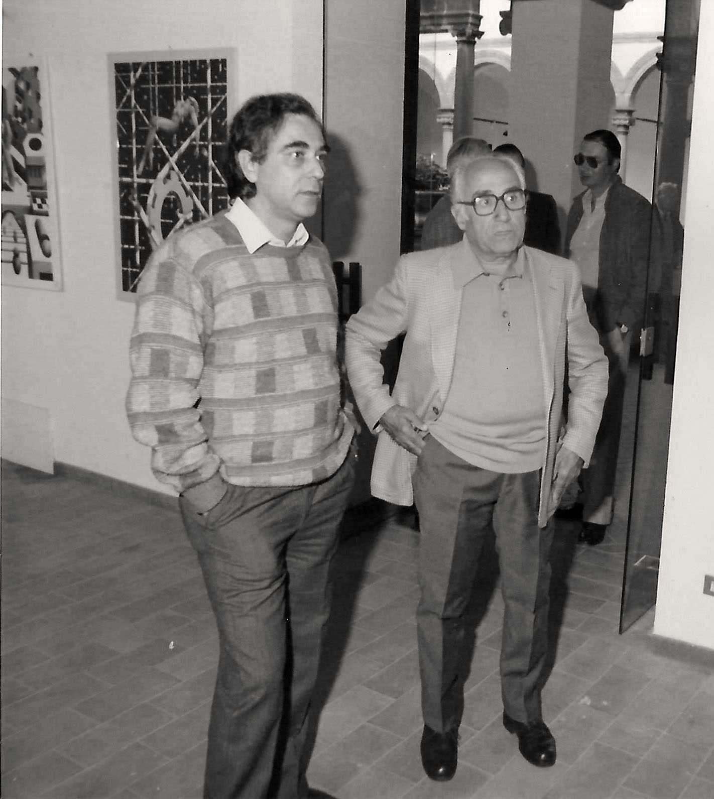 Photo of Pier Augusto Breccia and Emilio Greco, at Breccia's Exhibition in Orvieto, 1981.